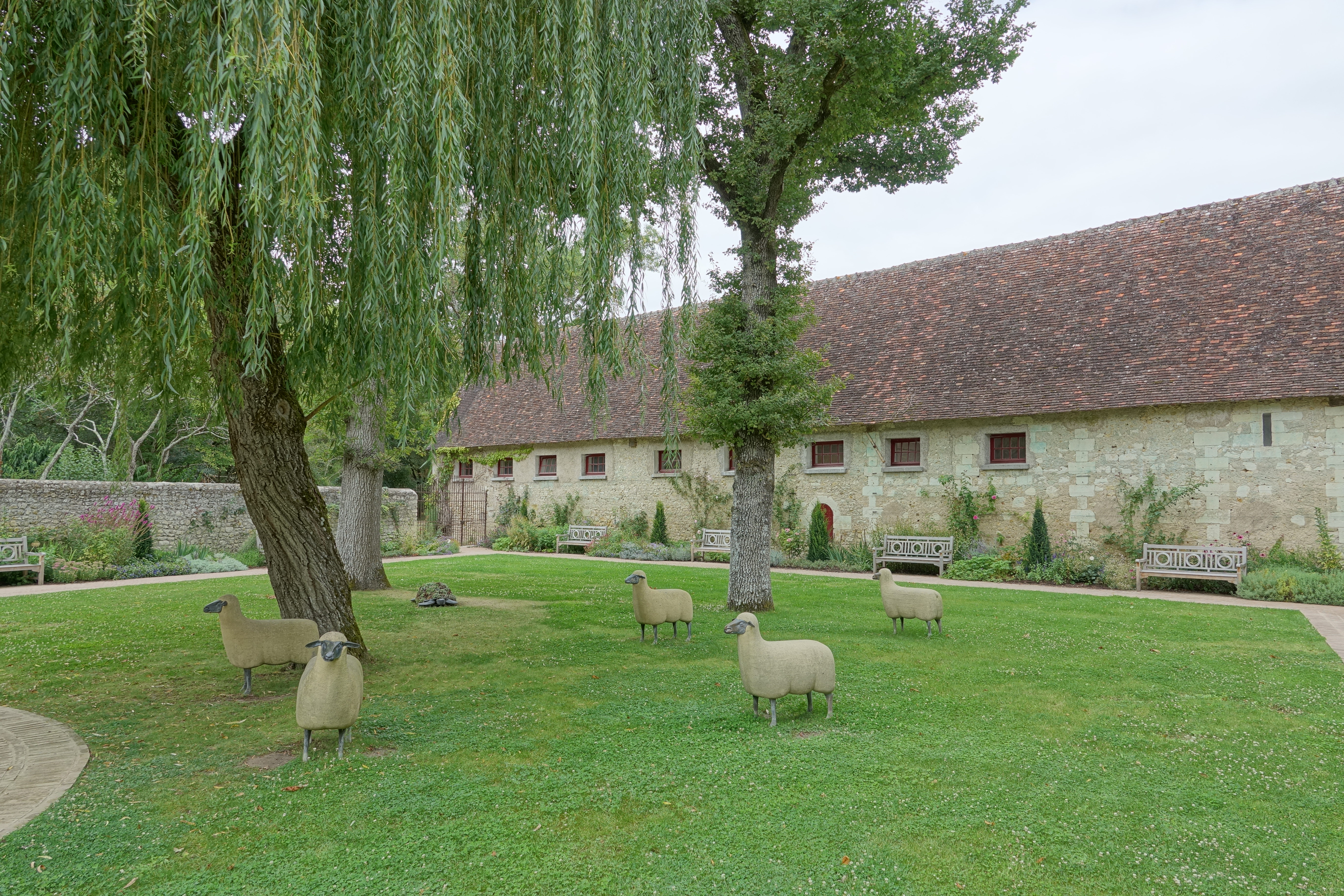 Russell Page garden in Chenonceau castle (Chenonceaux, Indre-et-Loire, France).